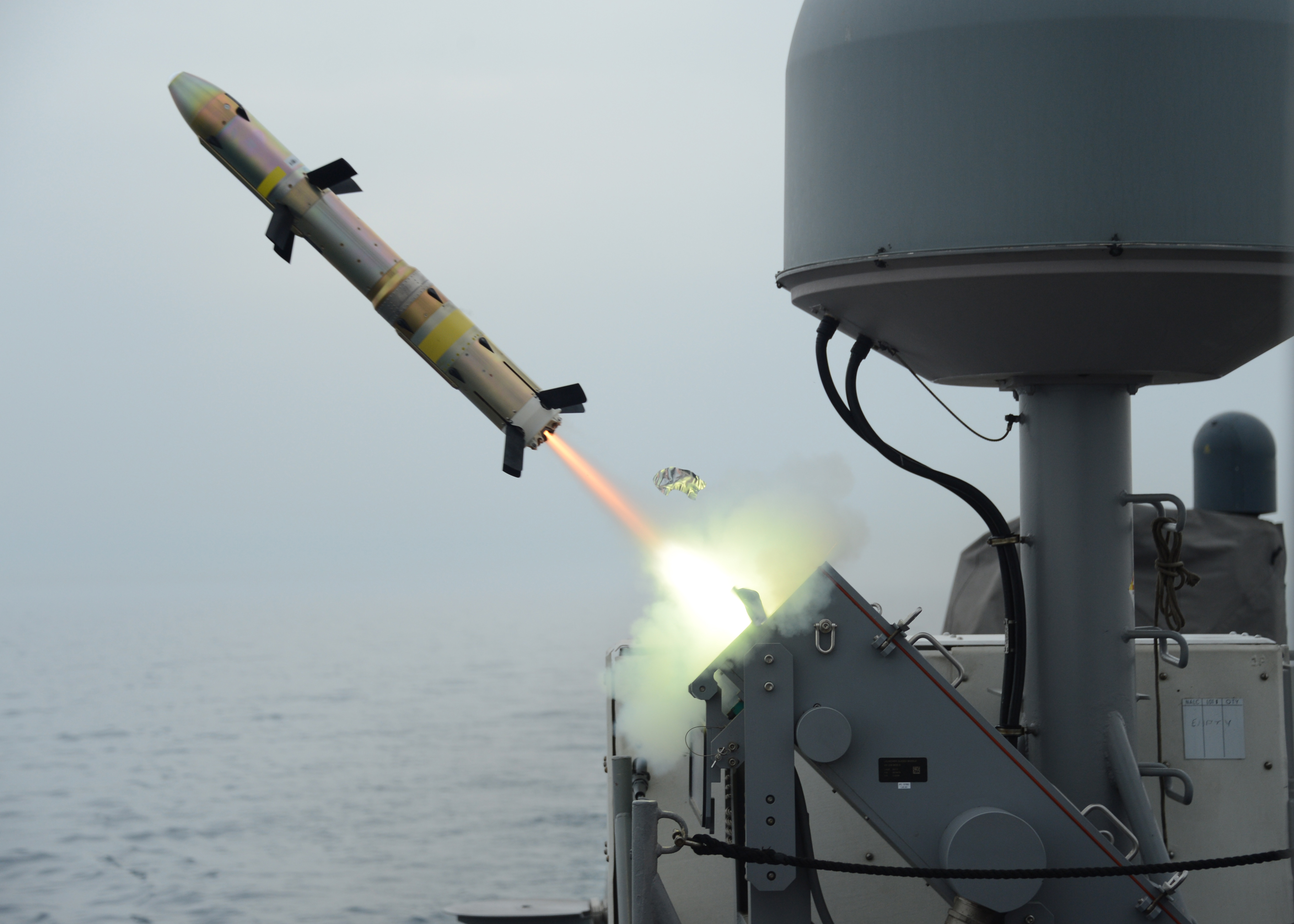 ARABIAN GULF (March 20, 2014) - The coastal patrol ship USS Typhoon (PC-5) launches an MK-60 surface-to-surface missile during a Griffin missile exercise. The Griffin missile exercise is a surface-to-surface live-fire missile exercise conducted to train for small boat threats in the U.S. 5th Fleet Area of responsibility. (U.S. Navy photo by Mass Communication Specialist 1st Class Doug Harvey/Released)